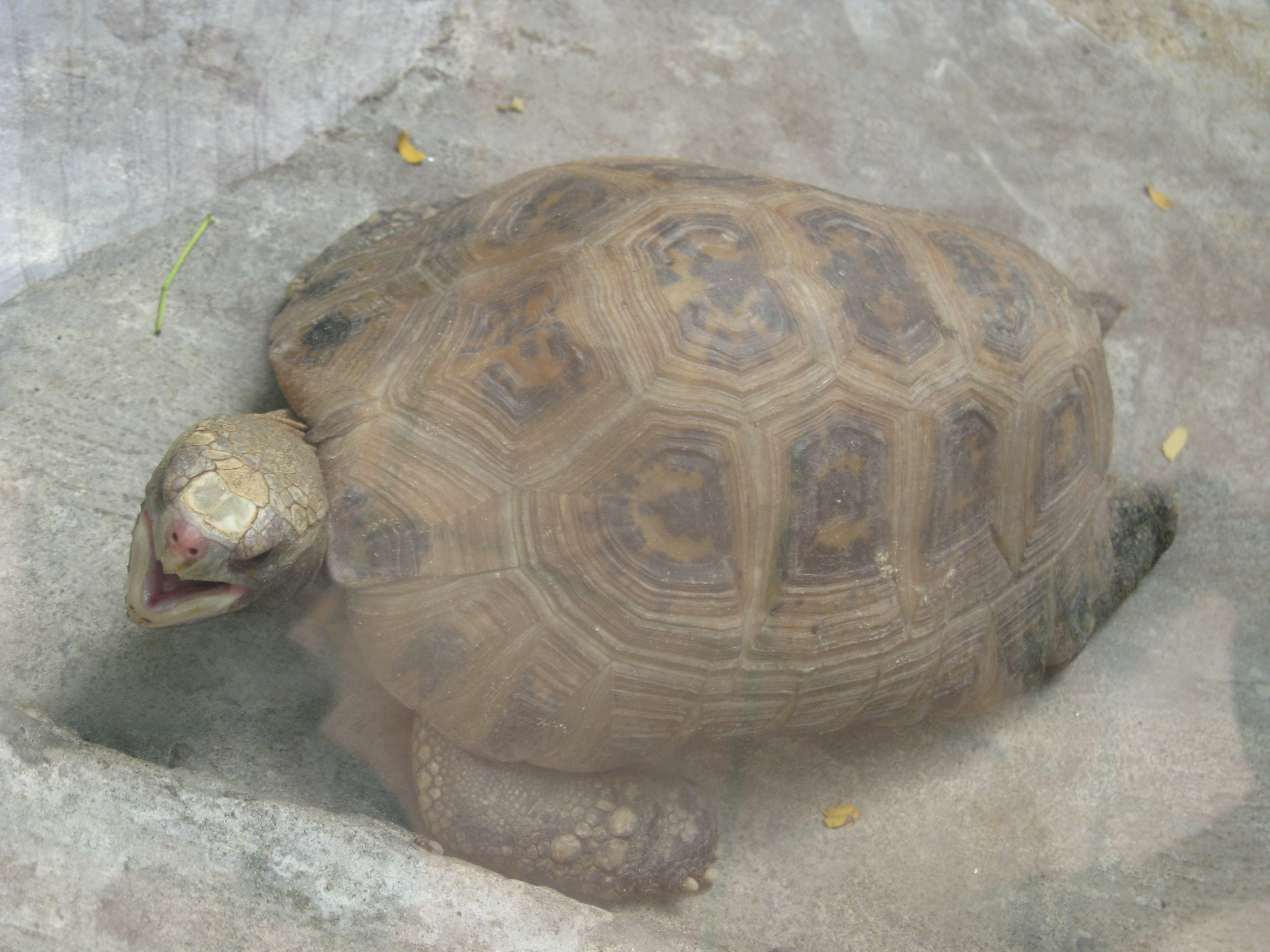 Indotestudo elongata at Saigon Zoo and Botanical Gardens.